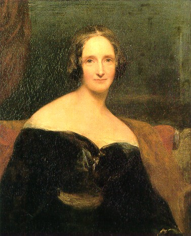 Mary Shelley (née Mary Wollstonecraft Godwin; 30 August 1797 – 1 February 1851) was a British novelist, short story writer, dramatist, essayist, biographer, and travel writer, best known for her Gothic novel Frankenstein: or, The Modern Prometheus (1818).